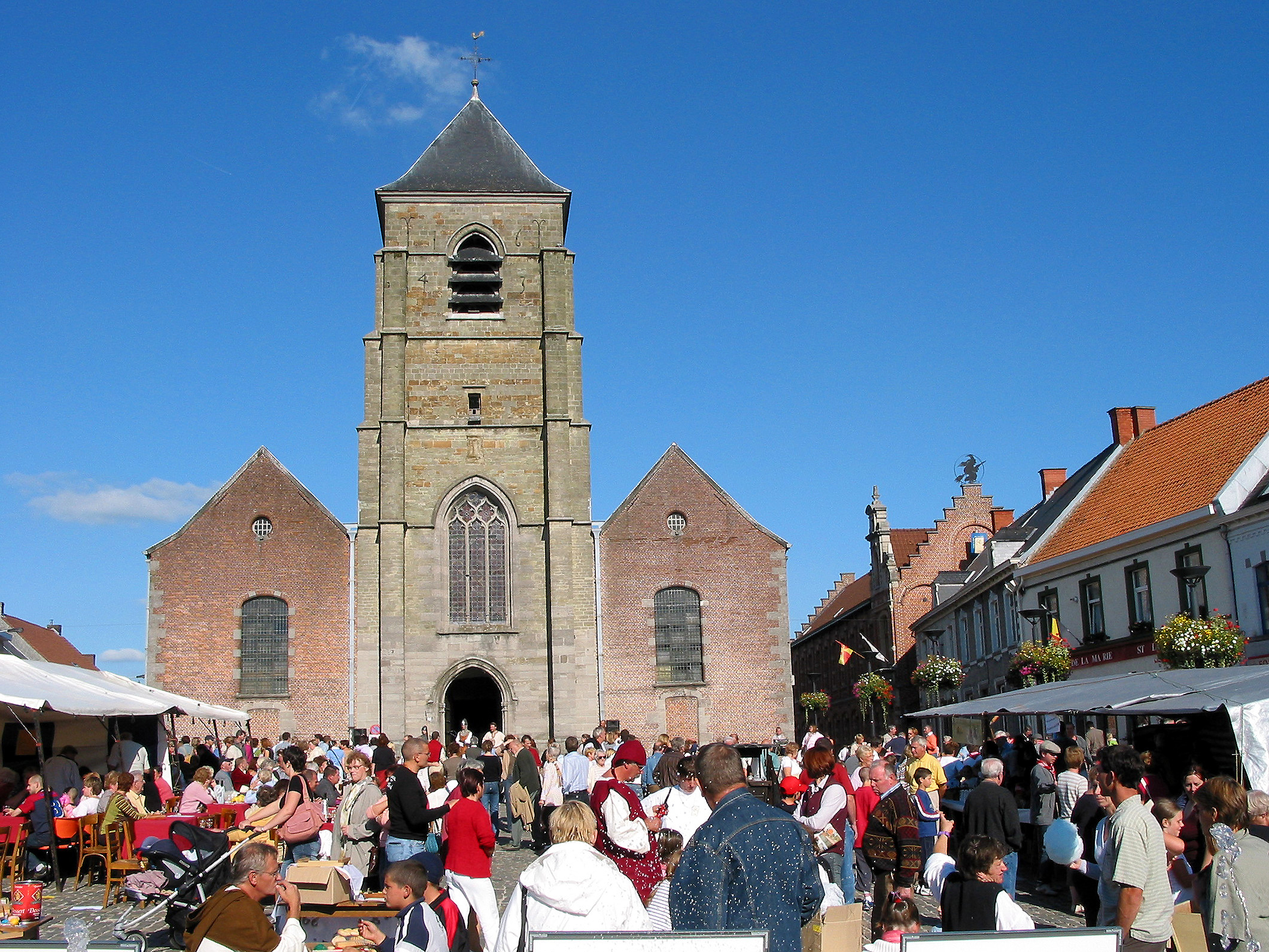 Ellezelles (Belgium), the St. Peter-with-bonds church (XV/XVIIIth centuries).